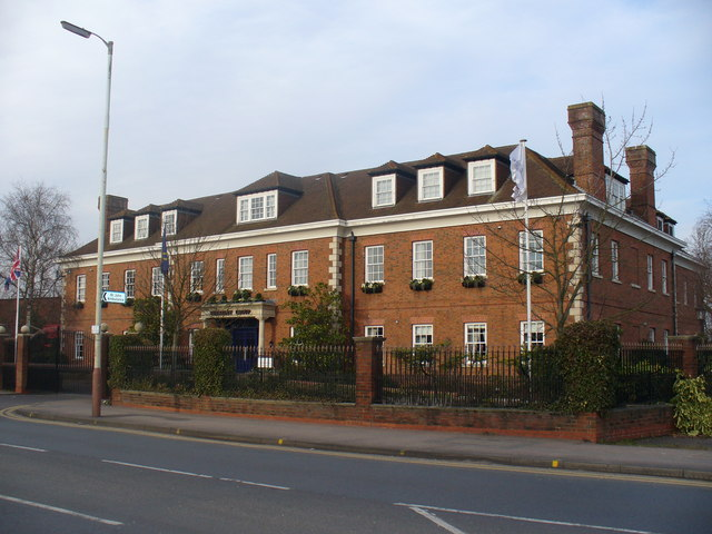 Berkeley House, Cobham Grand brick building on Portsmouth Road, Cobham. It now houses offices of the Berkeley Group.